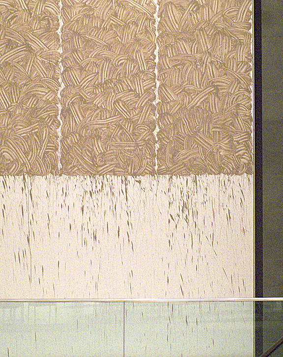 Detail of Riverlines installed in Hearst tower by artist Richard Long